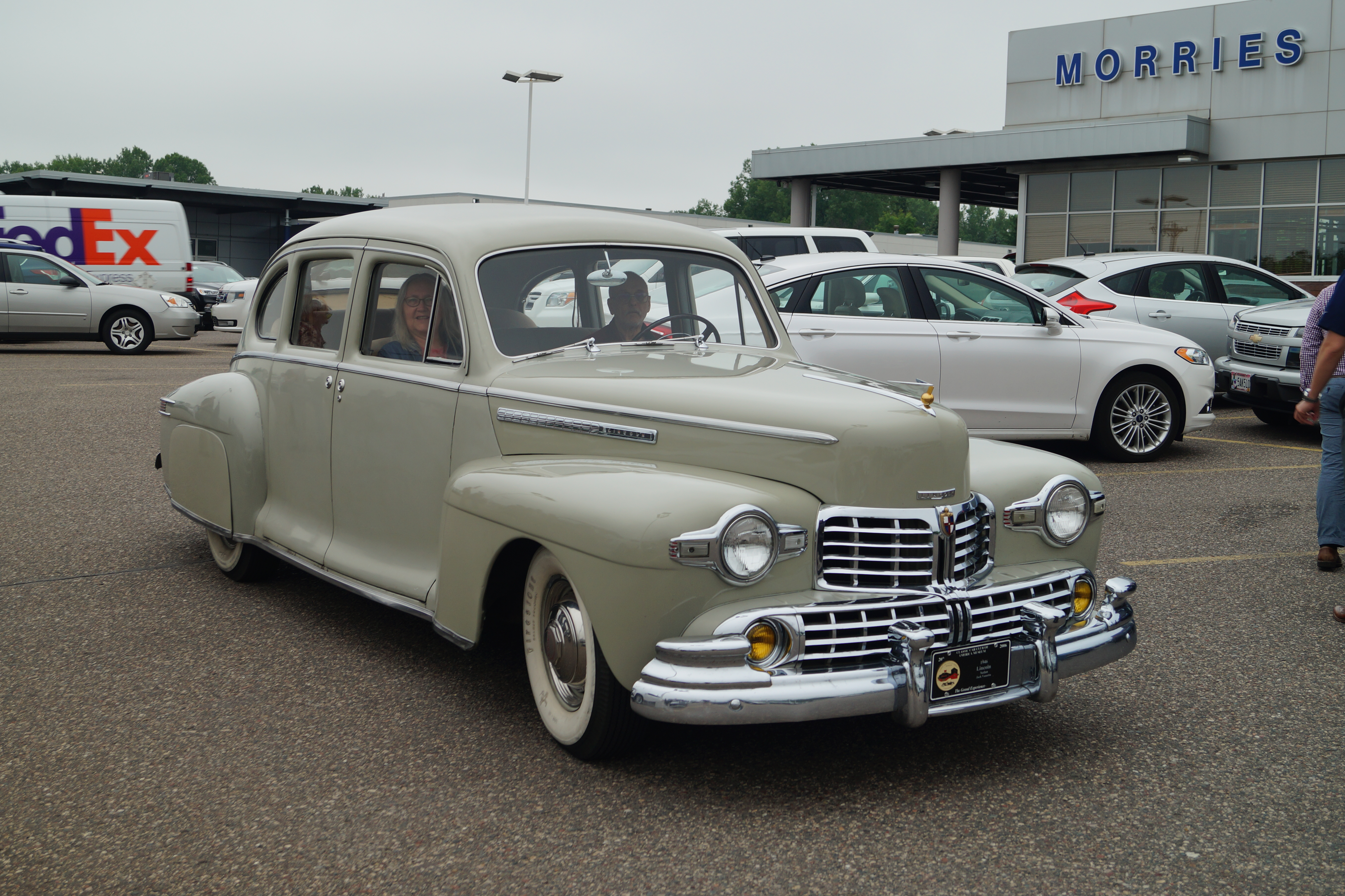 Lincoln & Continental Owners' Club North Star Region 8th Annual Classic Lincoln Car Show Morrie's Minnetonka Ford-Lincoln Minnetonka, Minnesota Click here for more car pictures at my Flickr site.